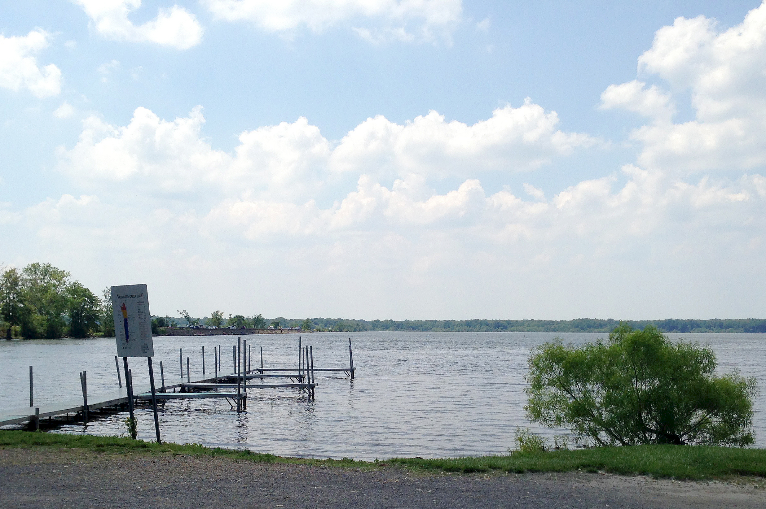 Looking west over Mosquito Lake immediately north of State Route 88 in Mecca Township, Trumbull County, Ohio, United States.